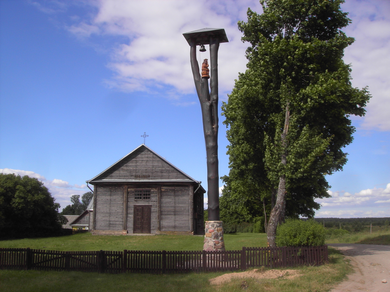 A chapel with a bell tower in the Village Skurbutėnai